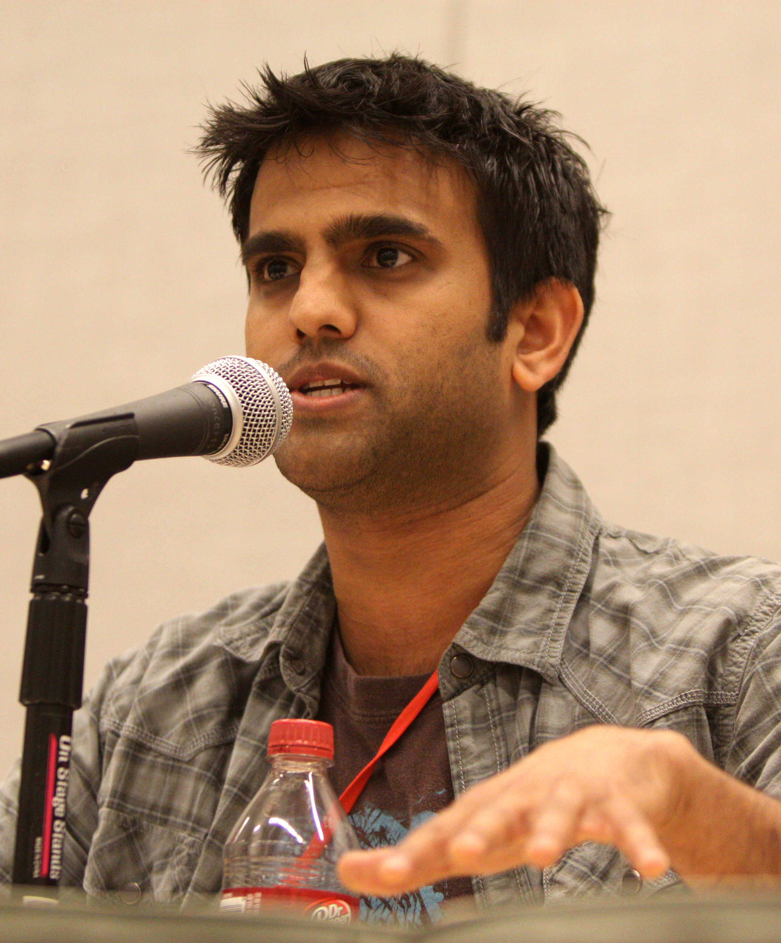 Sandeep Parikh at the 2011 Phoenix Comicon in Phoenix, Arizona.